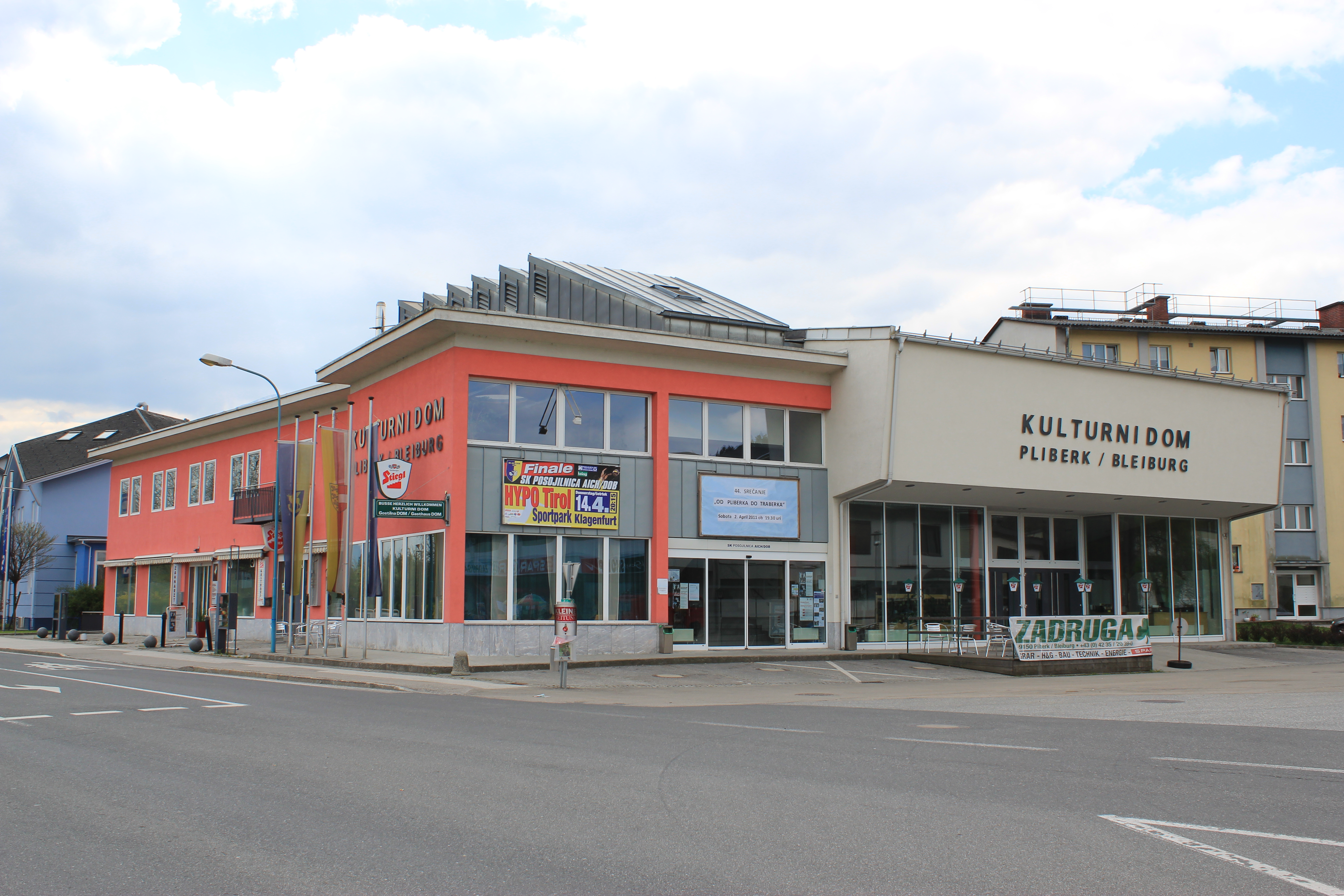 Kulturni Dom in Bleiburg